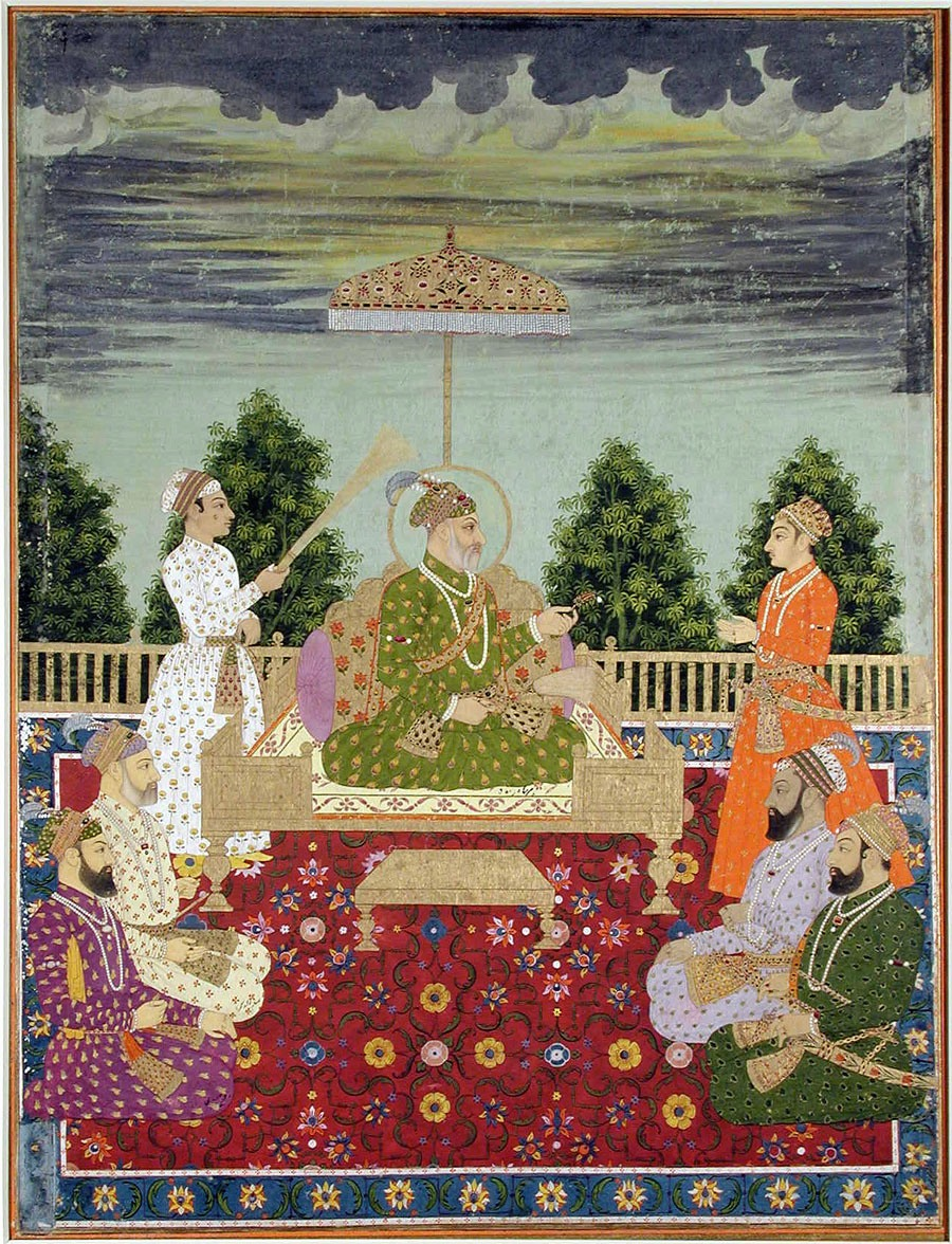 Bahadur Shah I with his sons handing a sarpech to a grandson, ca. 1710. San Diego Museum of Art